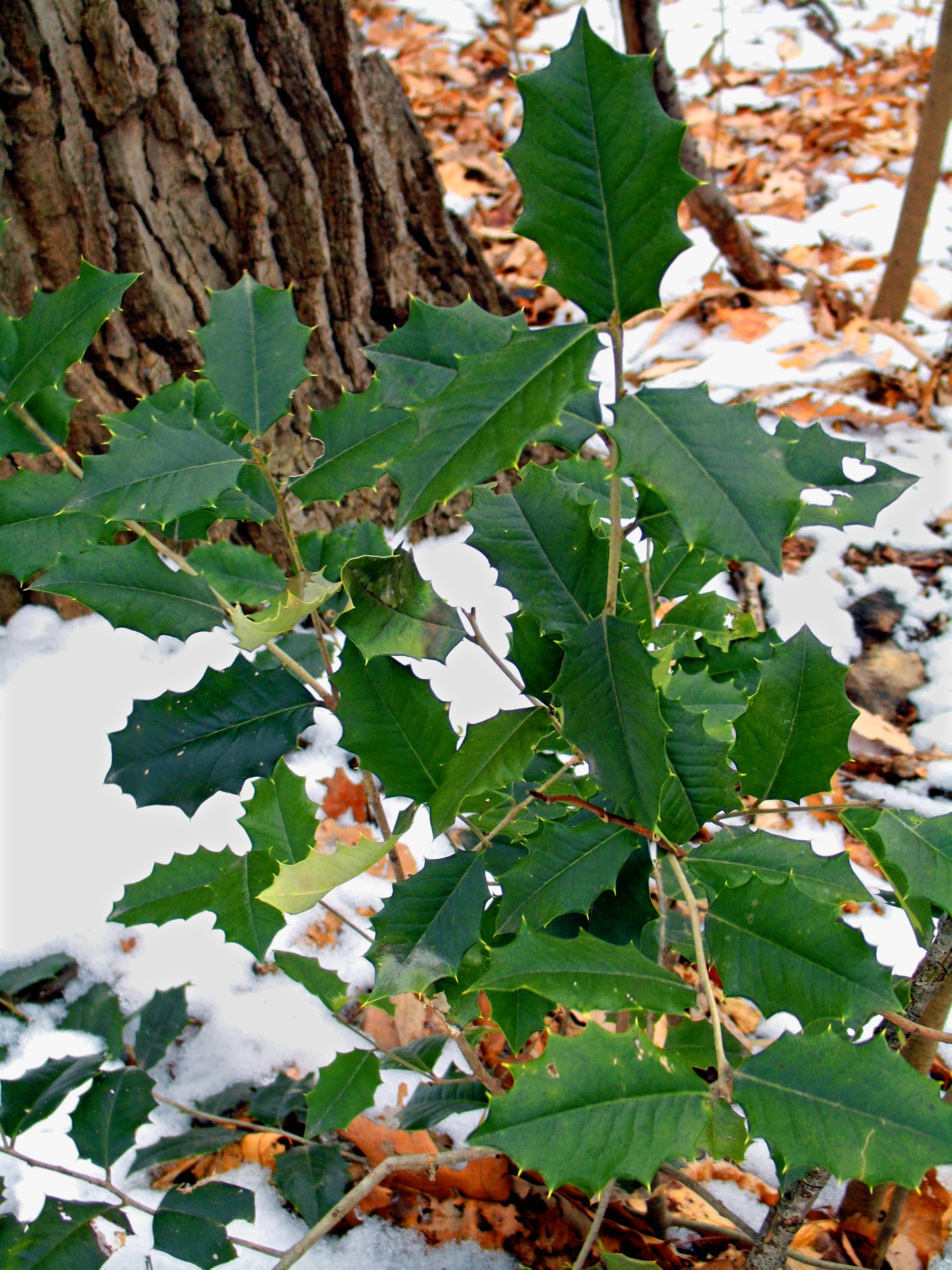 Young American Holly Ilex opaca specimen along the Turkey Hill Trail, Lancaster County, Pennsylvania. The Turkey Hill Trail traverses the steep River Hills region south of Washington Boro.